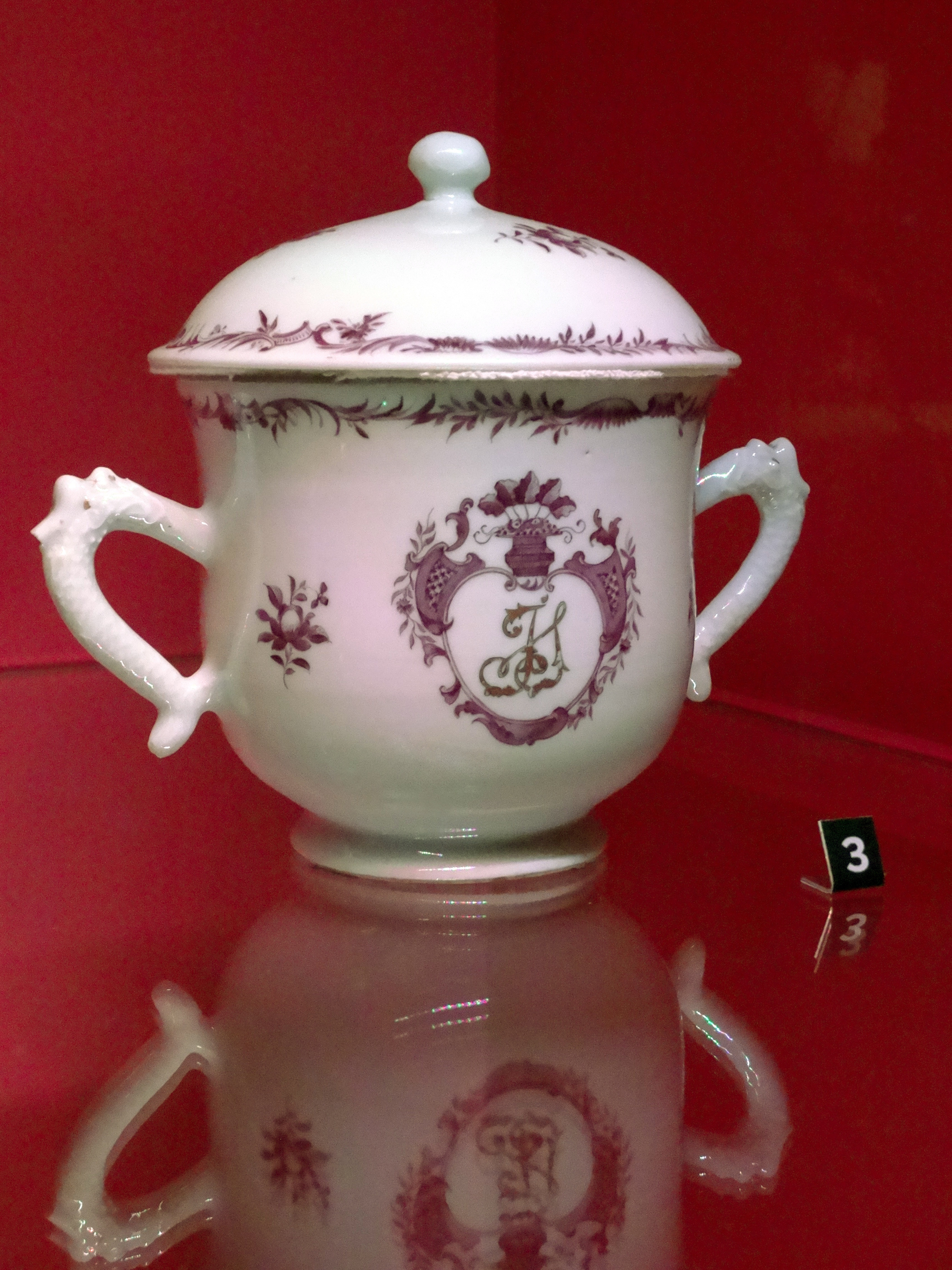 A porcelain sugar bowl manufactured in China around 1770-1790 and acquired by the City Museum of Gothenburg, Sweden in 1916. More info in the museum database, item GM:7012.